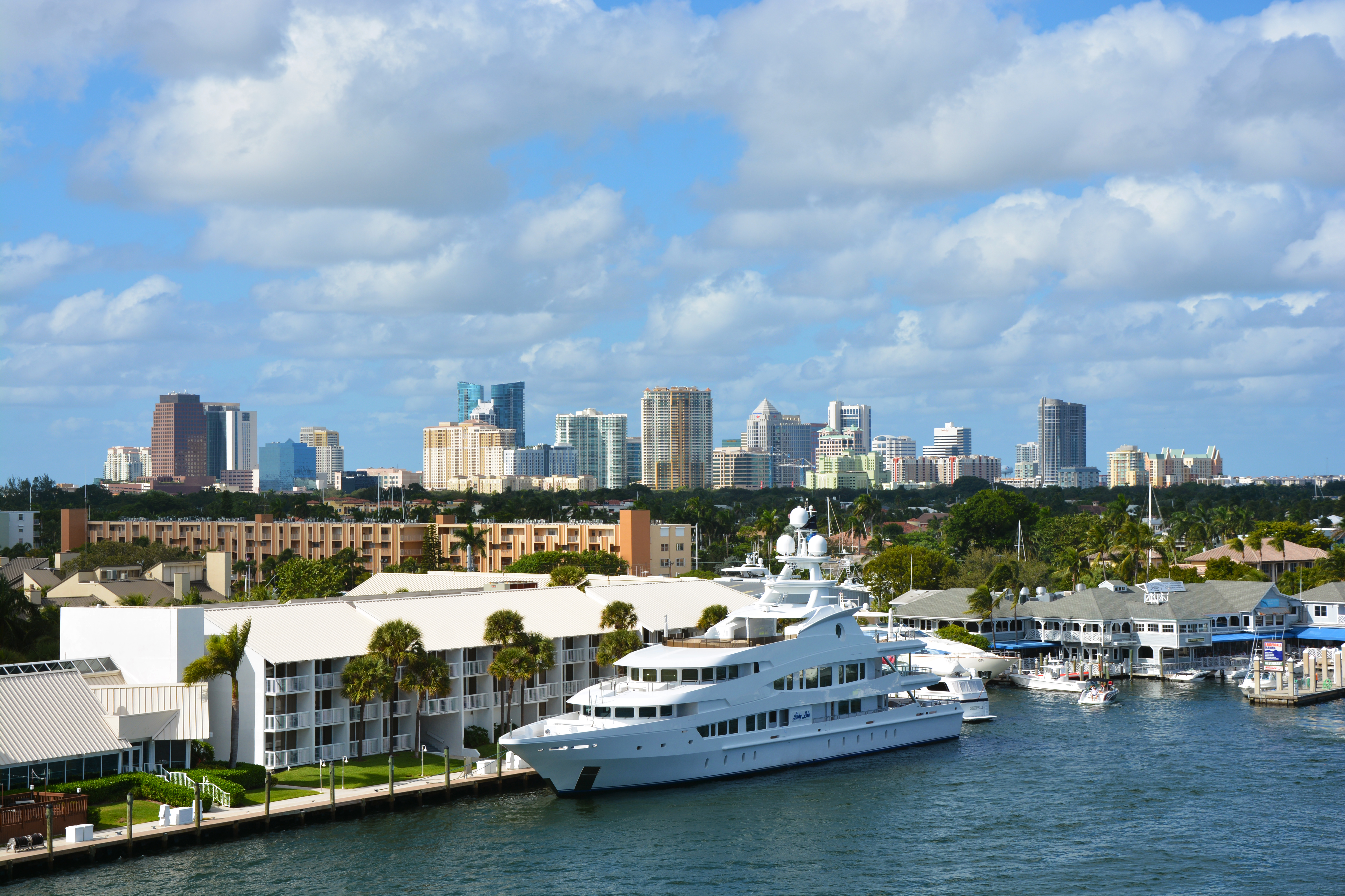 The skyline of Downtown Fort Lauderdale, Florida.